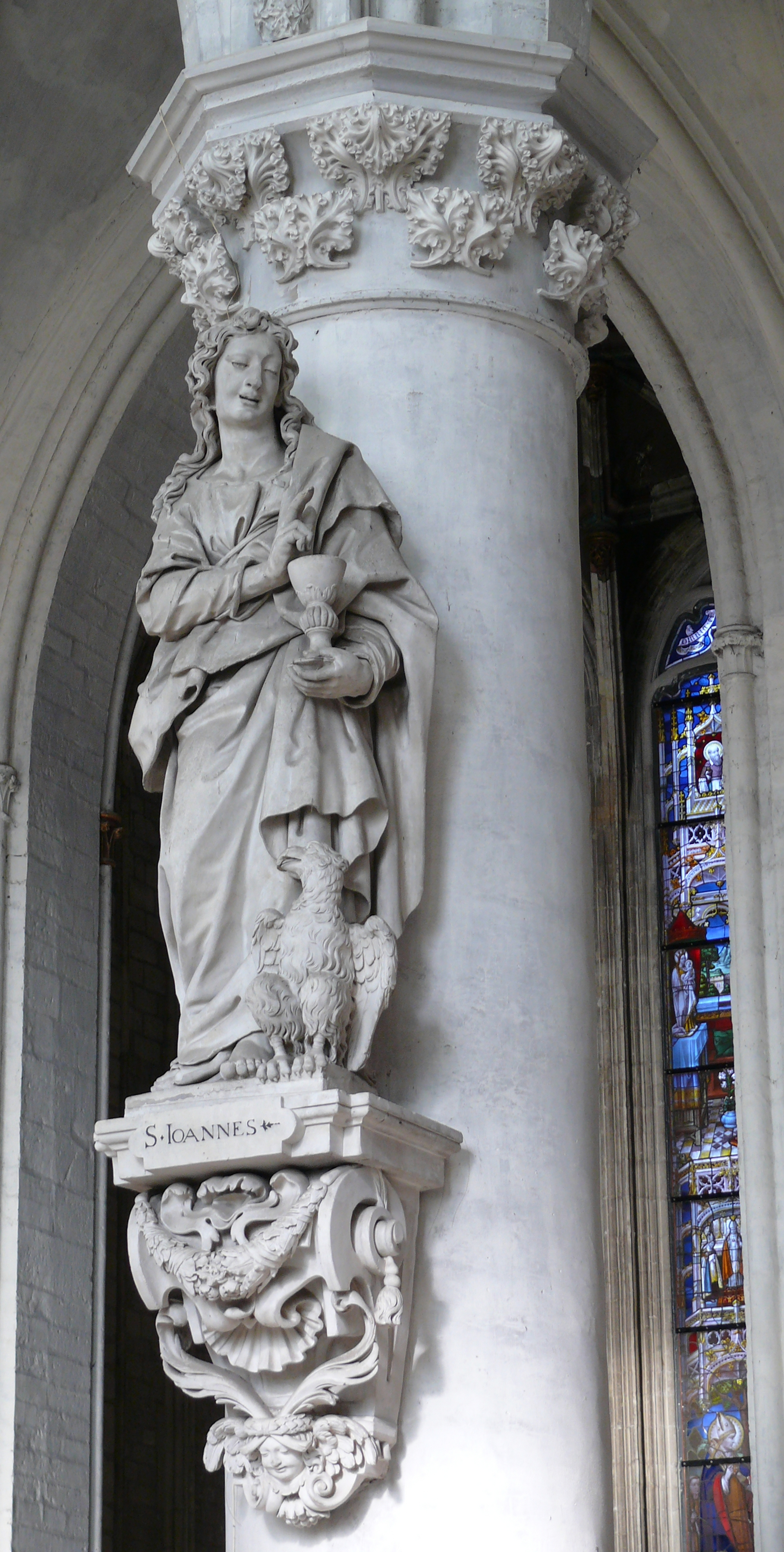 Sculpture of John the Apostle, one of the apostles, in St-Rumbold's Cathedral (Mechelen, Belgium) by Lucas Faydherbe.